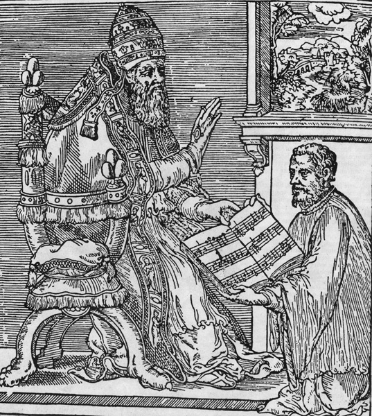 Frontispiece of the missal of Giovanni Pierluigi da Palestrina. He presents to Pope Julius III a work dedicated to him.